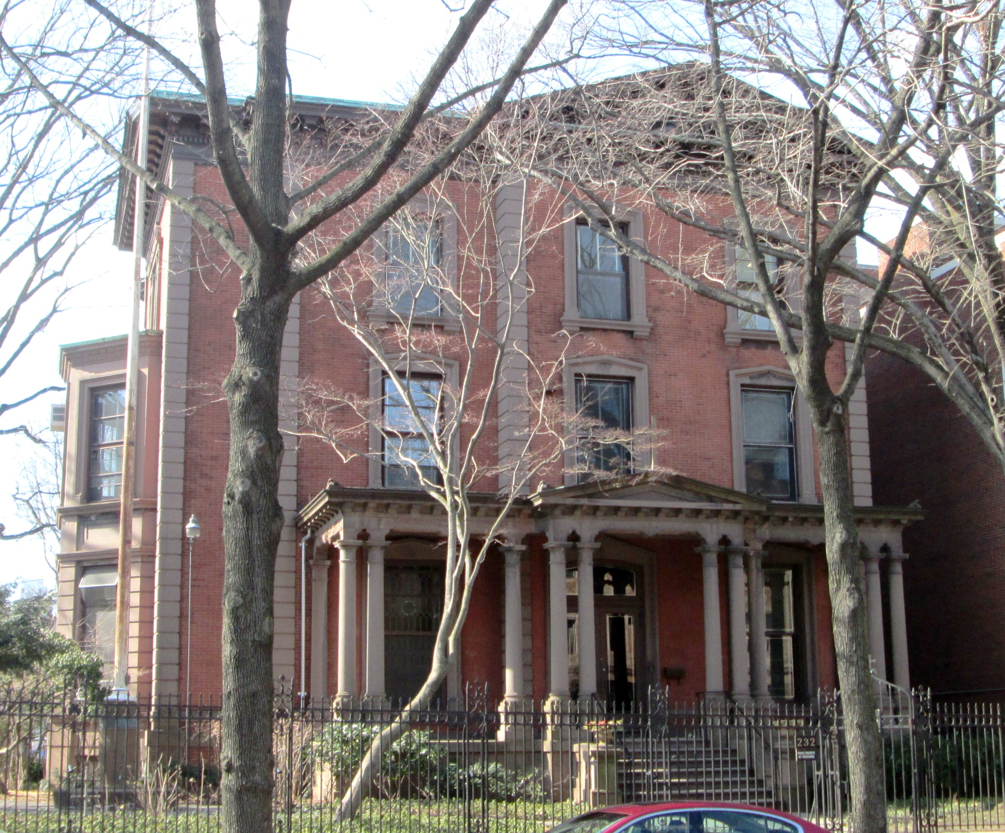 232 Clinton Avenue between Dekalb and Willoughby Avenues in the Clinton Hill neighborhood of Brooklyn, New York City was built in 1874-75 as the residence of Standard Oil magnate Charles Pratt, and was designed by Ebenezer L. Roberts in the Italianate style. It is now Founders Hall of St. Joseph's College and is used as a faculty residence. It is located within the Clinton Hill Historic District. (Source: AIA Guide to NYC (5th ed.) and"Brooklyn:Facilities" on the St. Joseph's College website)